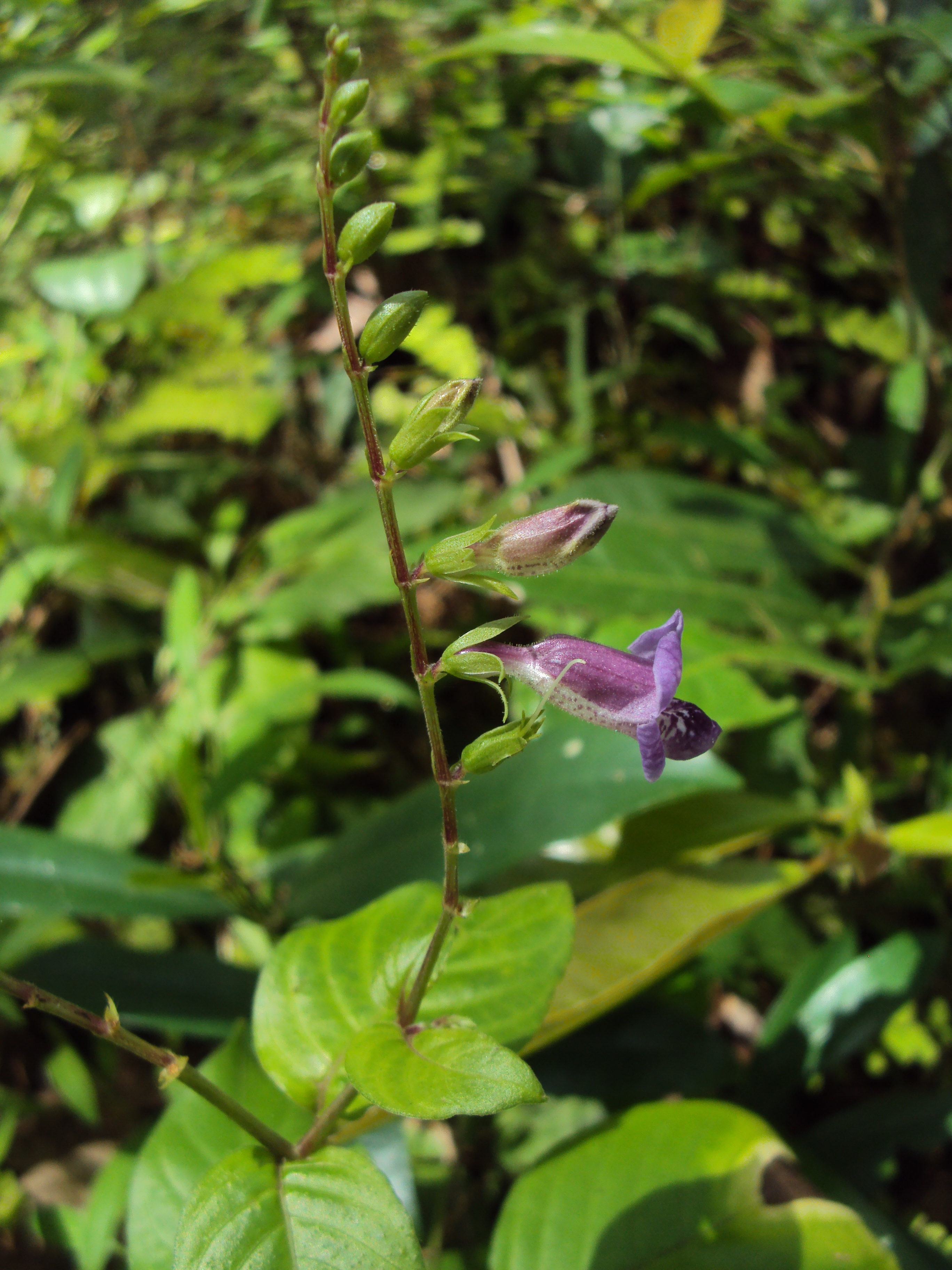 Asystasia dalzelliana